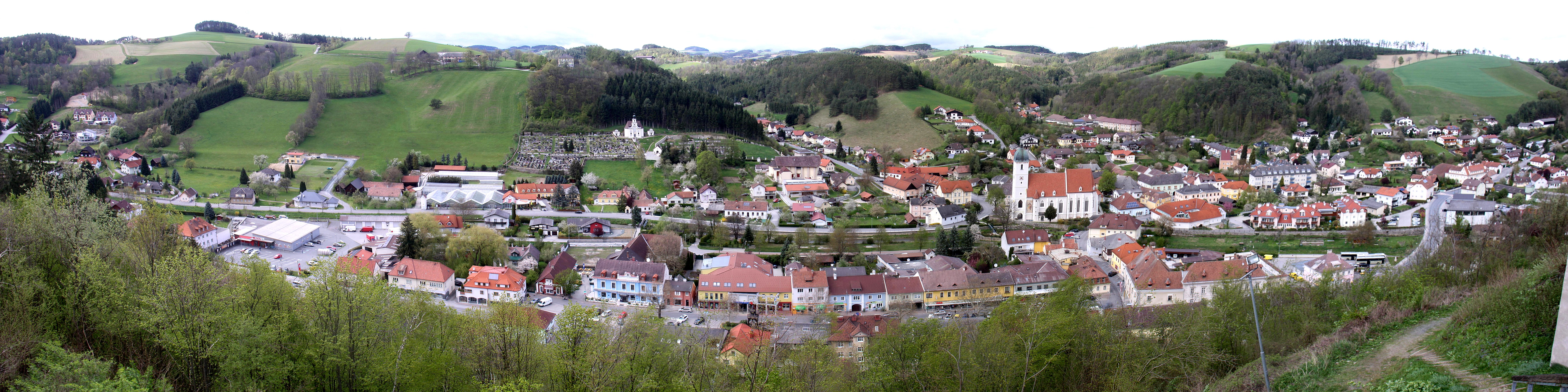 The city of Kirchschlag in der Buckligen Welt (panorama, stiched of 4 single-photos)